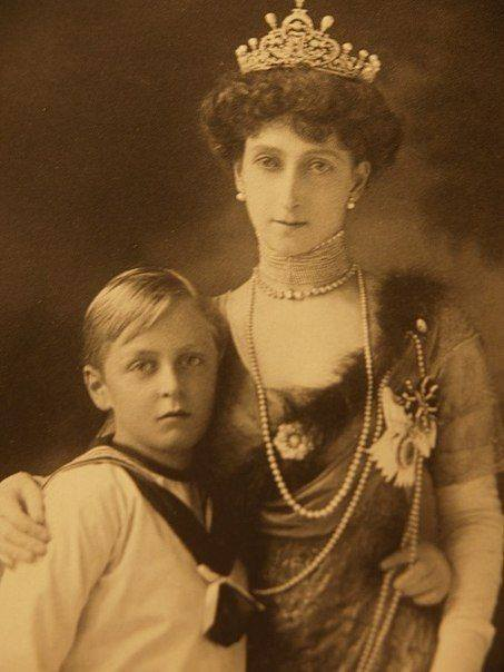 Queen Maud of Norway with her only child Haakon (later King Olav V of Norway), 1910s